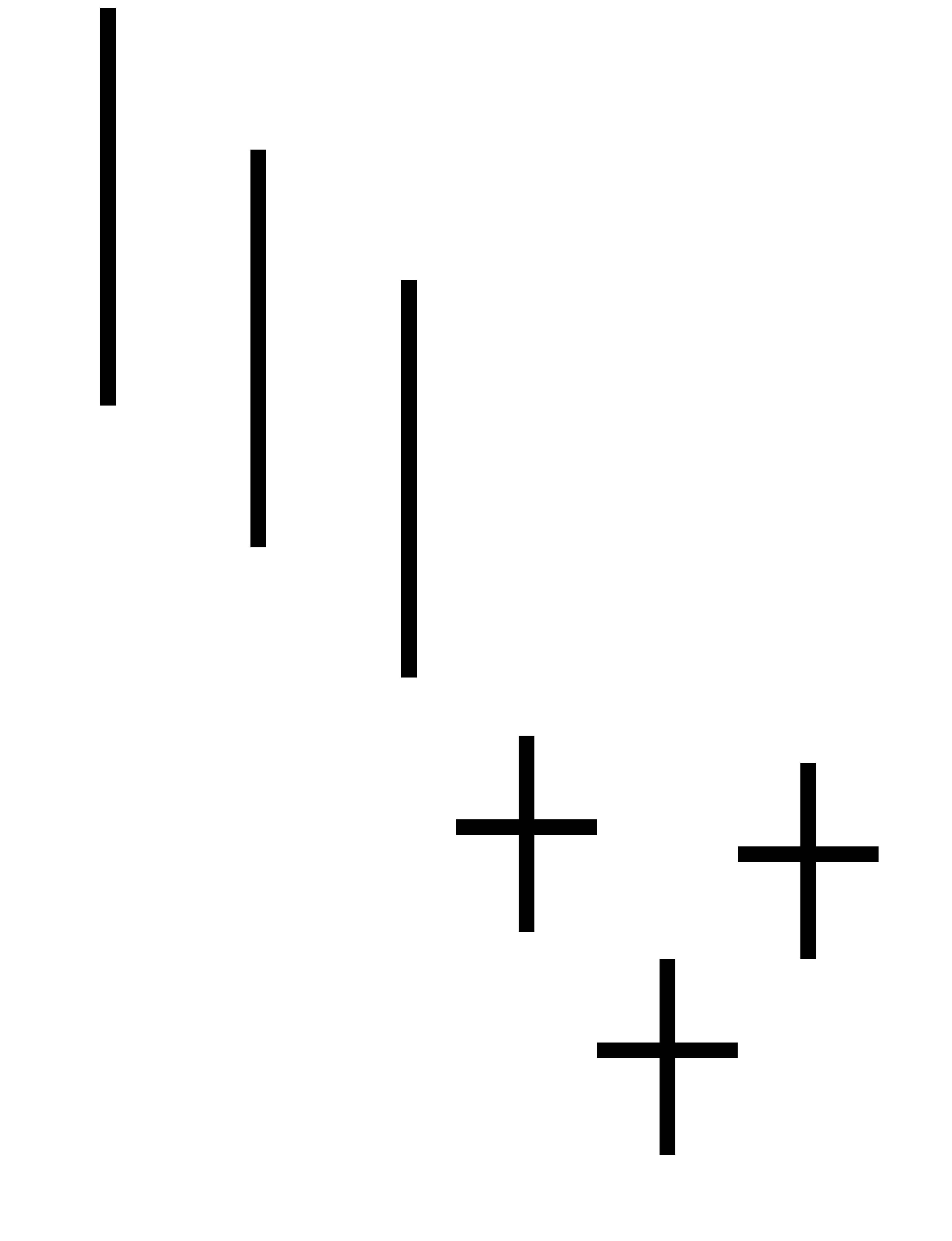 Bullish Tristar